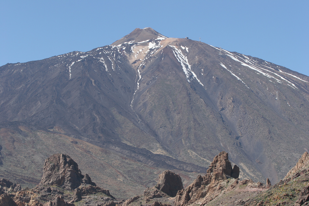 Teide volcano on Tenerife.